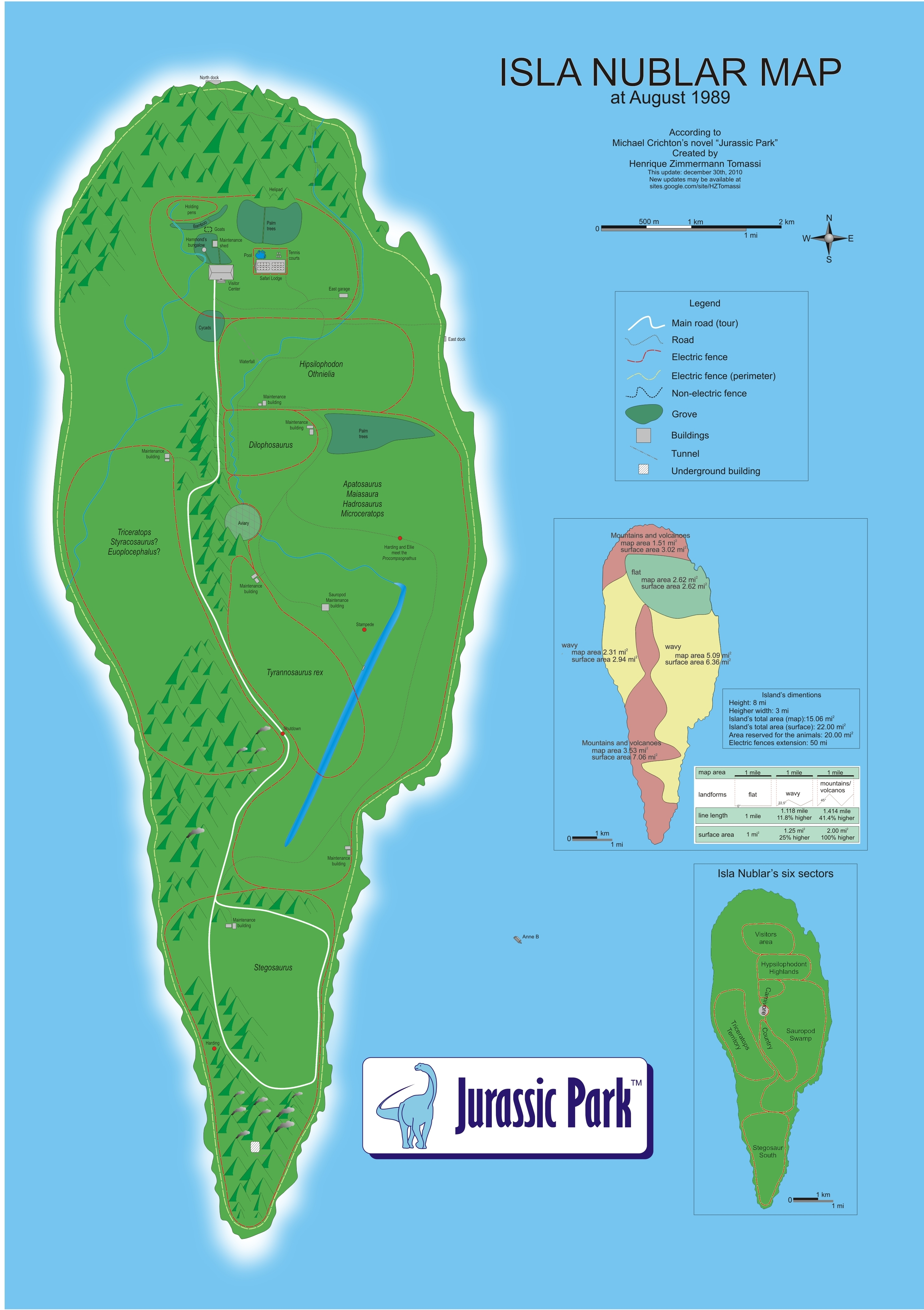 Isla Nublar as described in the novel Jurassic Park, made by a fan according to the book description.